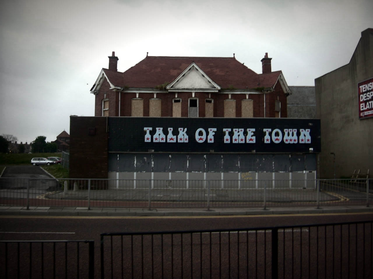 Talk of the Town. Derelict buildings, Whitley Bay